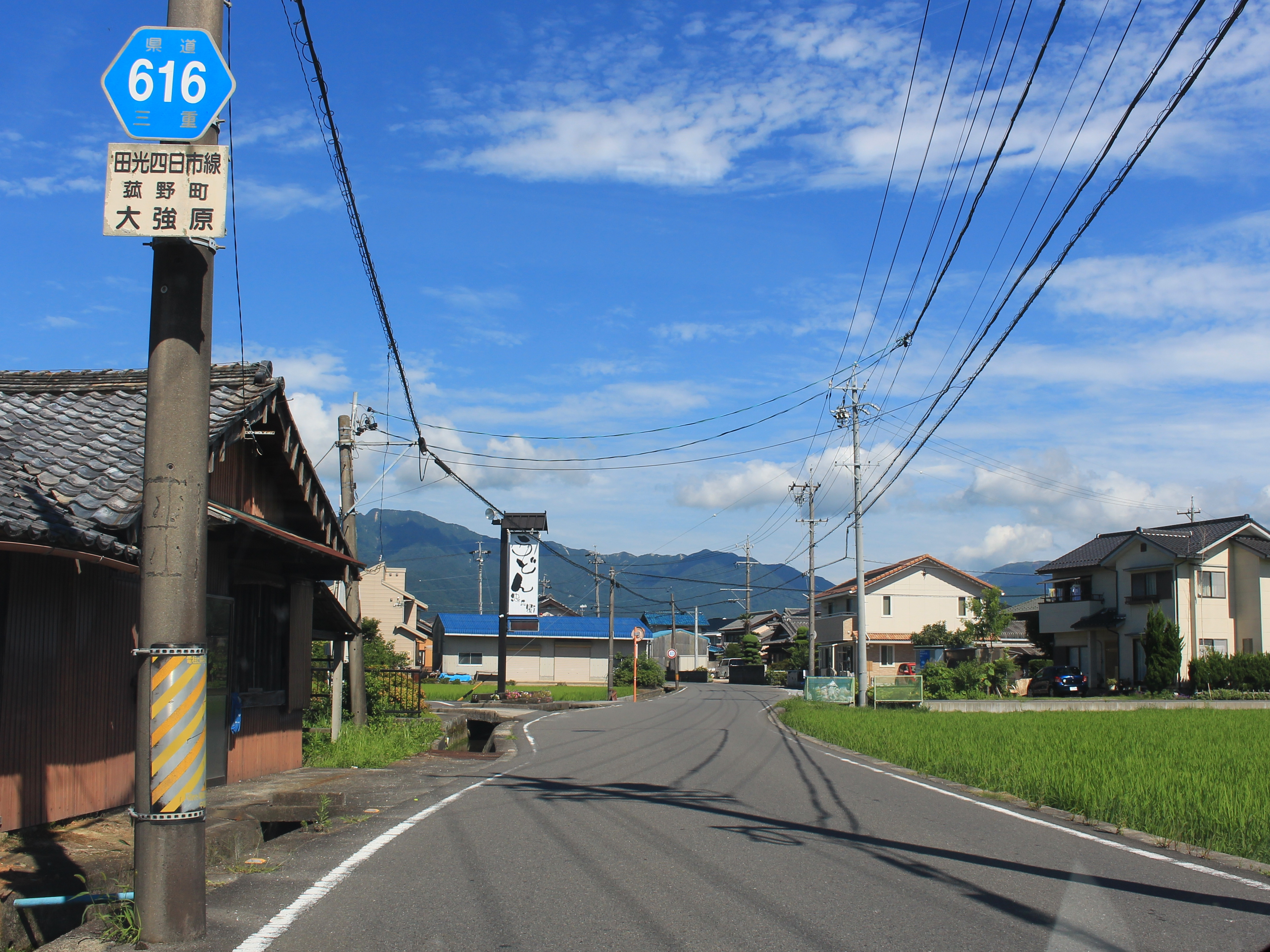 Mie Prefectural Road Route 616 in Ōgōhara, Komono, Mie prefecture, Japan.